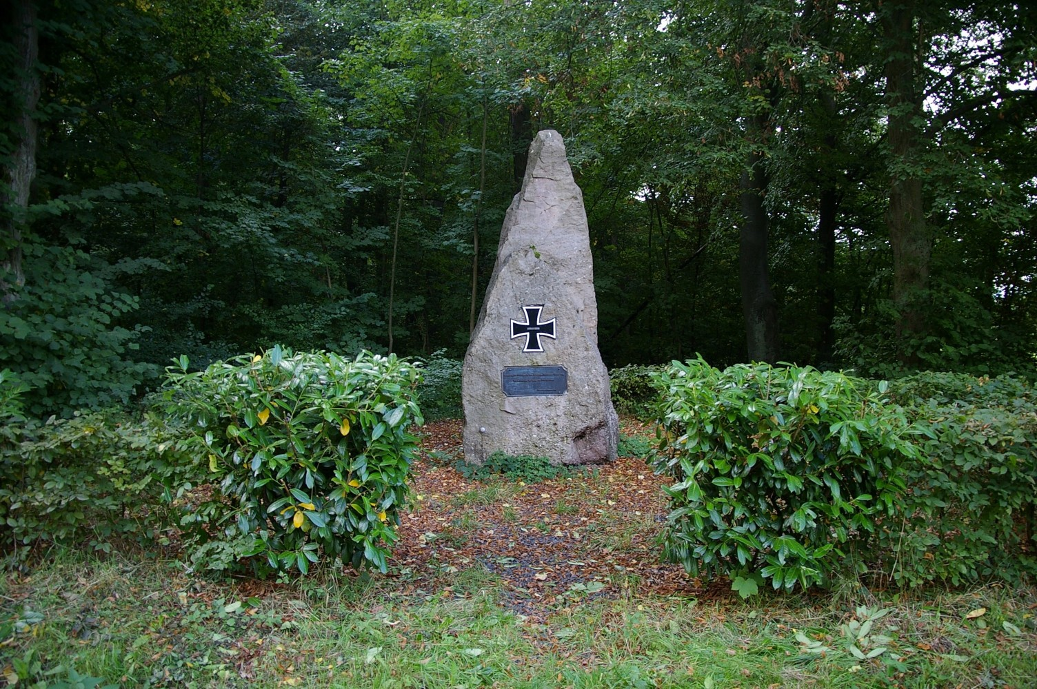 Memorial south of Limbach / Germany